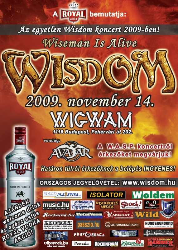 This flyer was made for the Keep Wiseman Alive IV show in 2009.